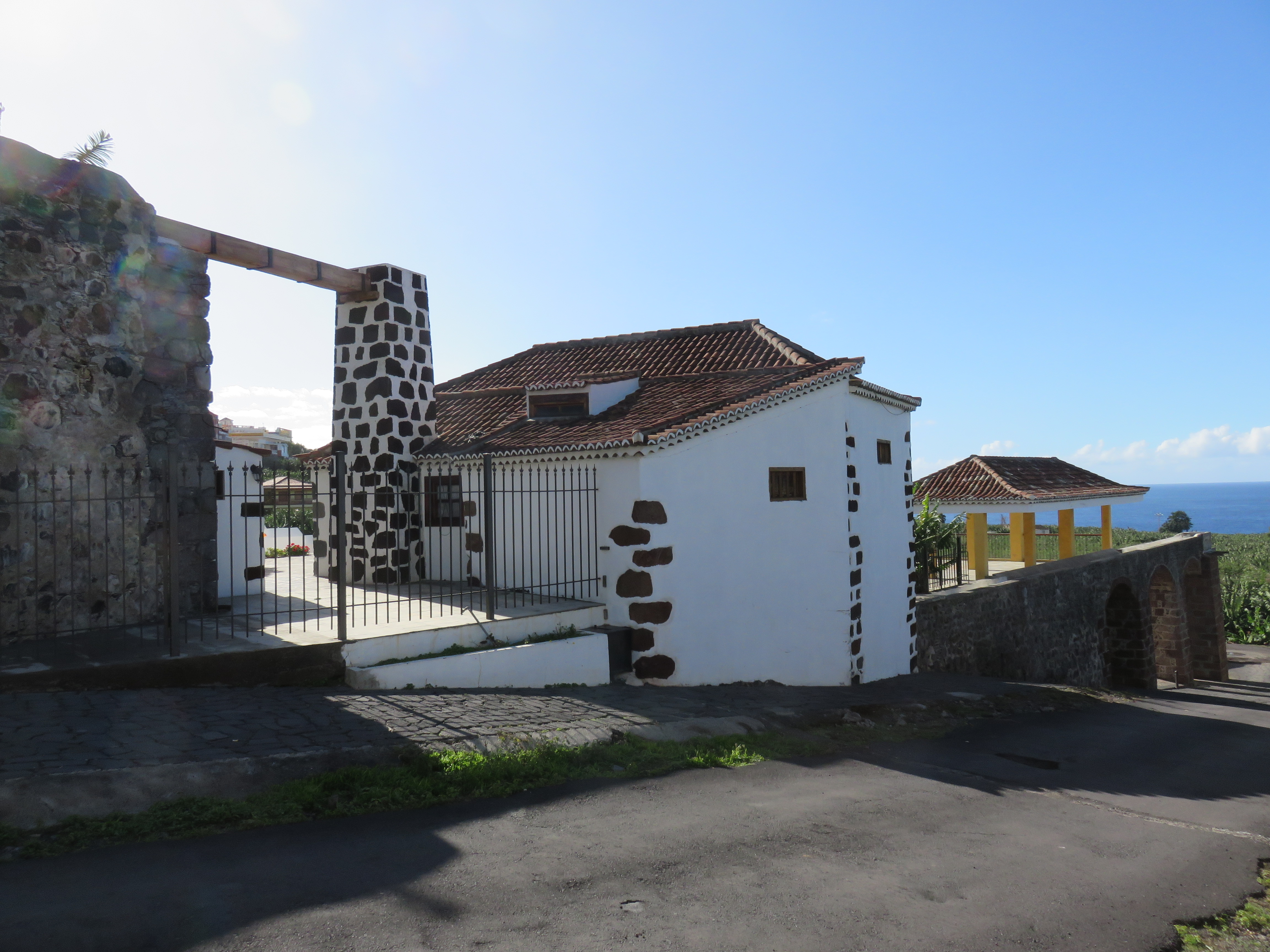 Tazacorte, district of El Charco, Molino Abajo with water-channel and fall shaft for feeding the water-wheel in the mill, continuation of the water-channel to the aqueduct (pictured right).